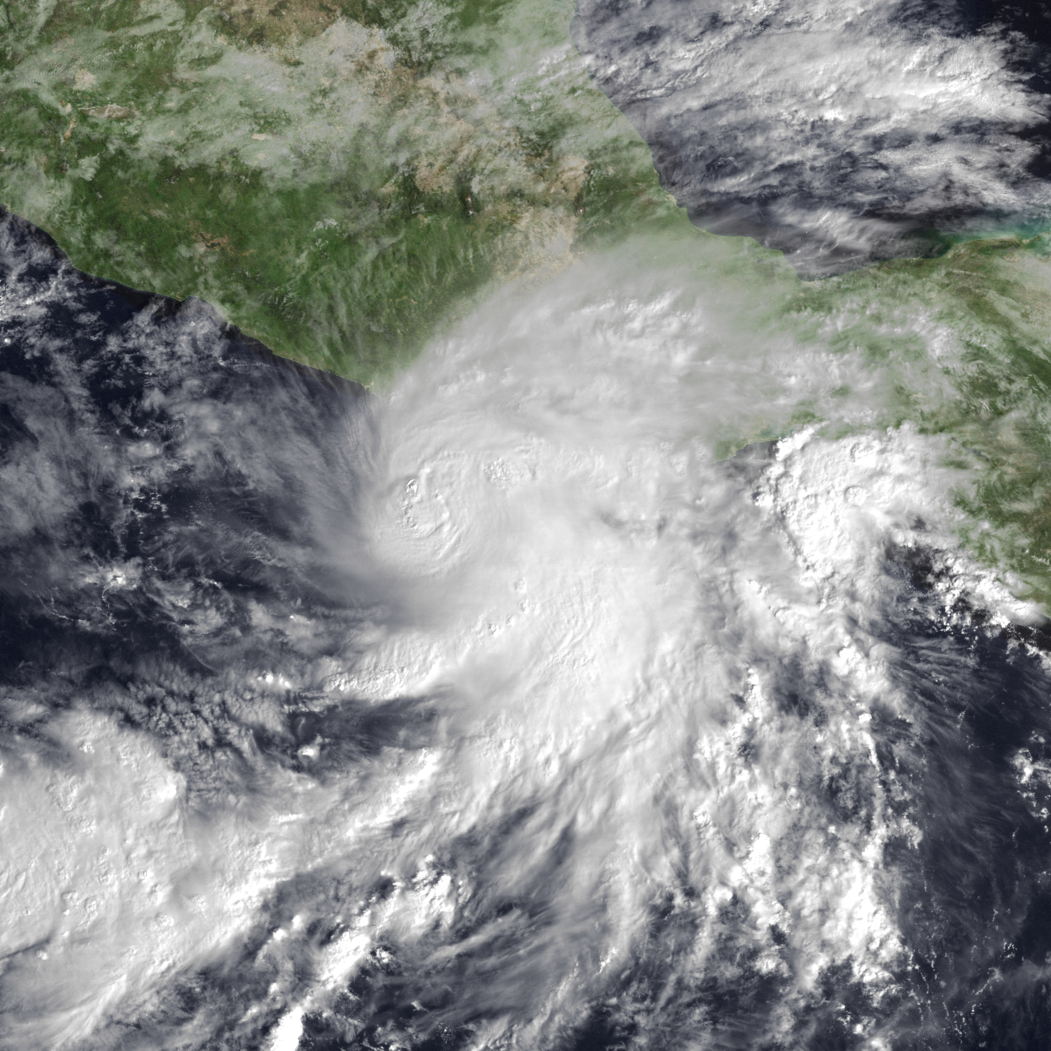 Hurricane Rick at peak intensity as a Category 2 hurricane on November 9, 1997 at 14:45 UTC.